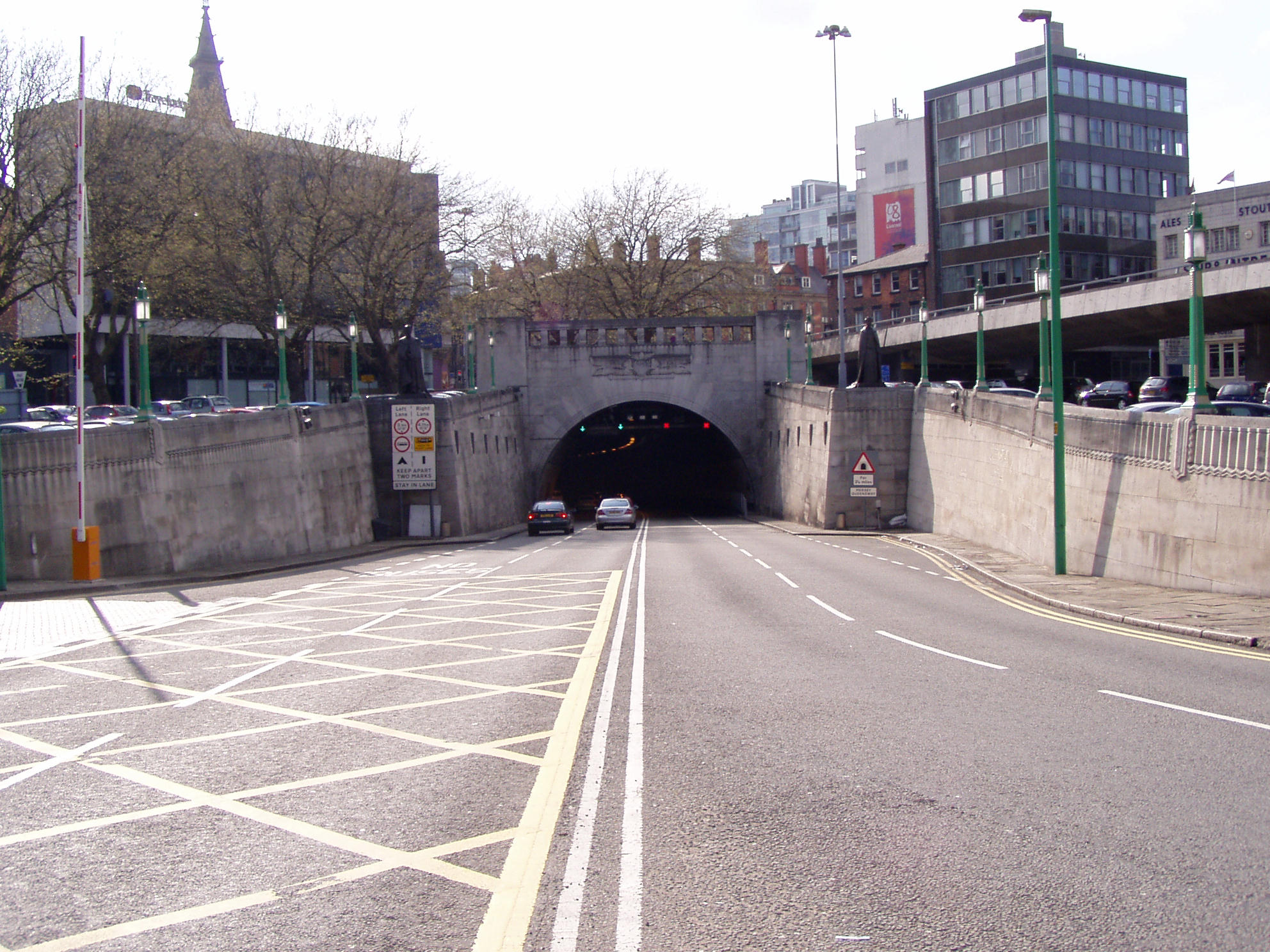 Queens Way Tunnel Enterance Liverpool